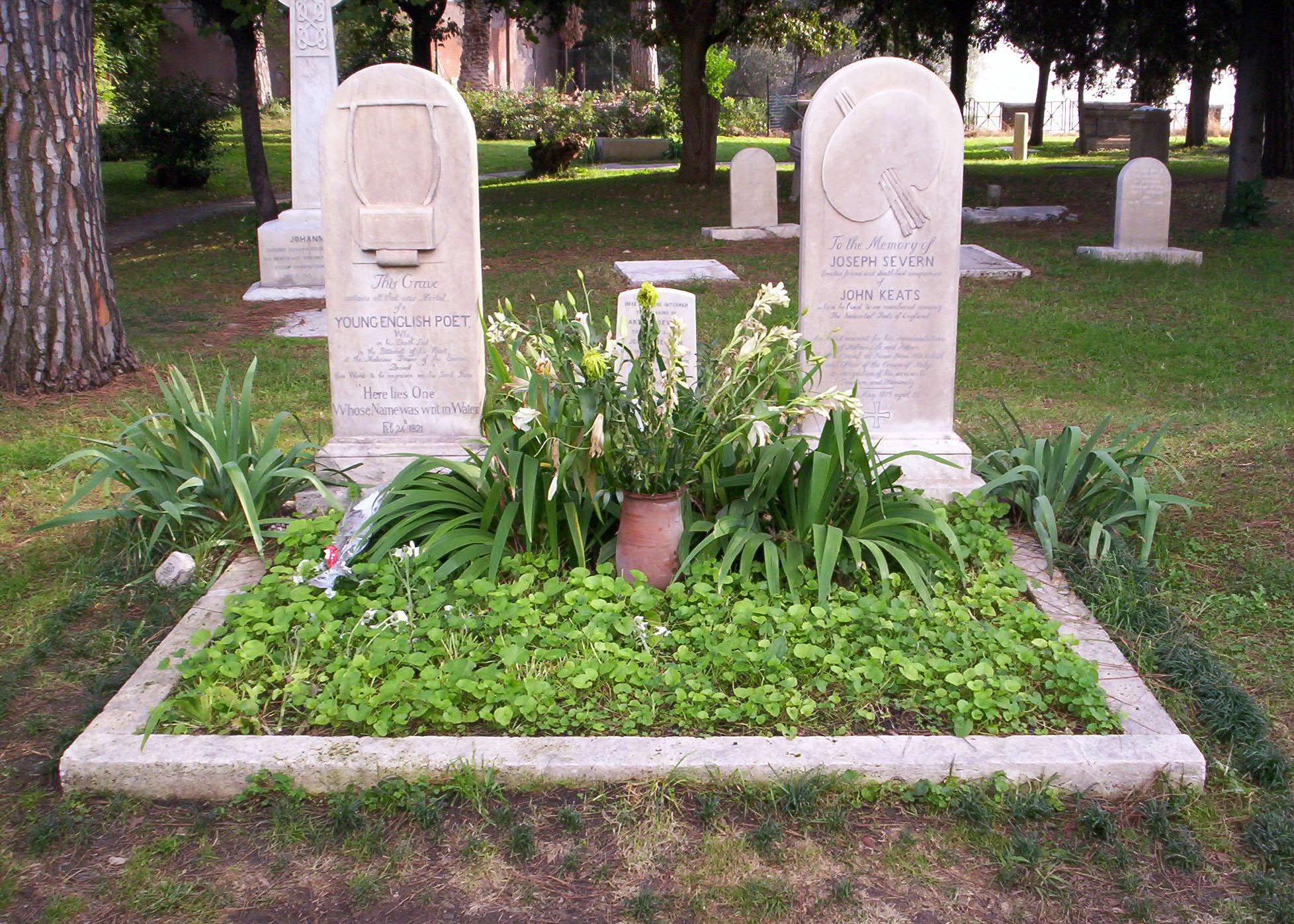 Protestant cemetery, Rome. The graves of the English poet John Keats (1795-1821) e his friend, painter Joseph Severn (1793-1879).